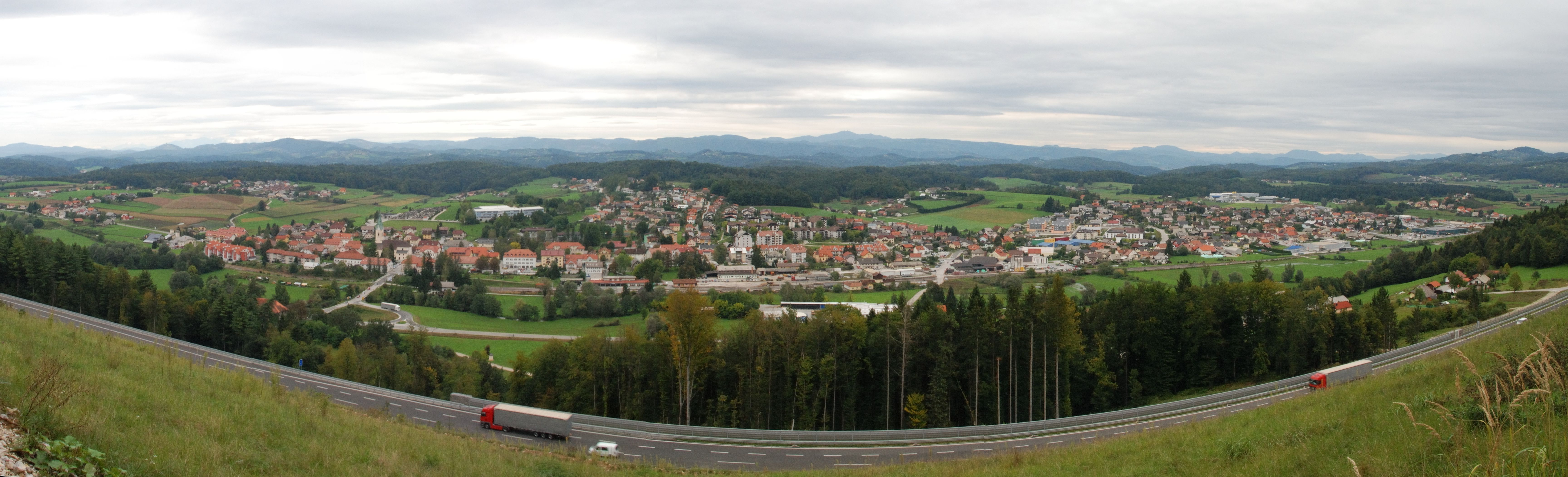 A vista of Trebnje, Slovenia.